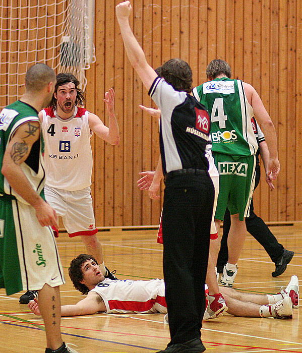 Pictured: Jón Ólafur Jónsson expressing his surprise with the referee's decision.